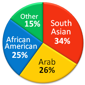 The Ethnic composition of Muslims in the United States, according to the United States Department of State based on the publication of Being Muslim in America as of March 2009